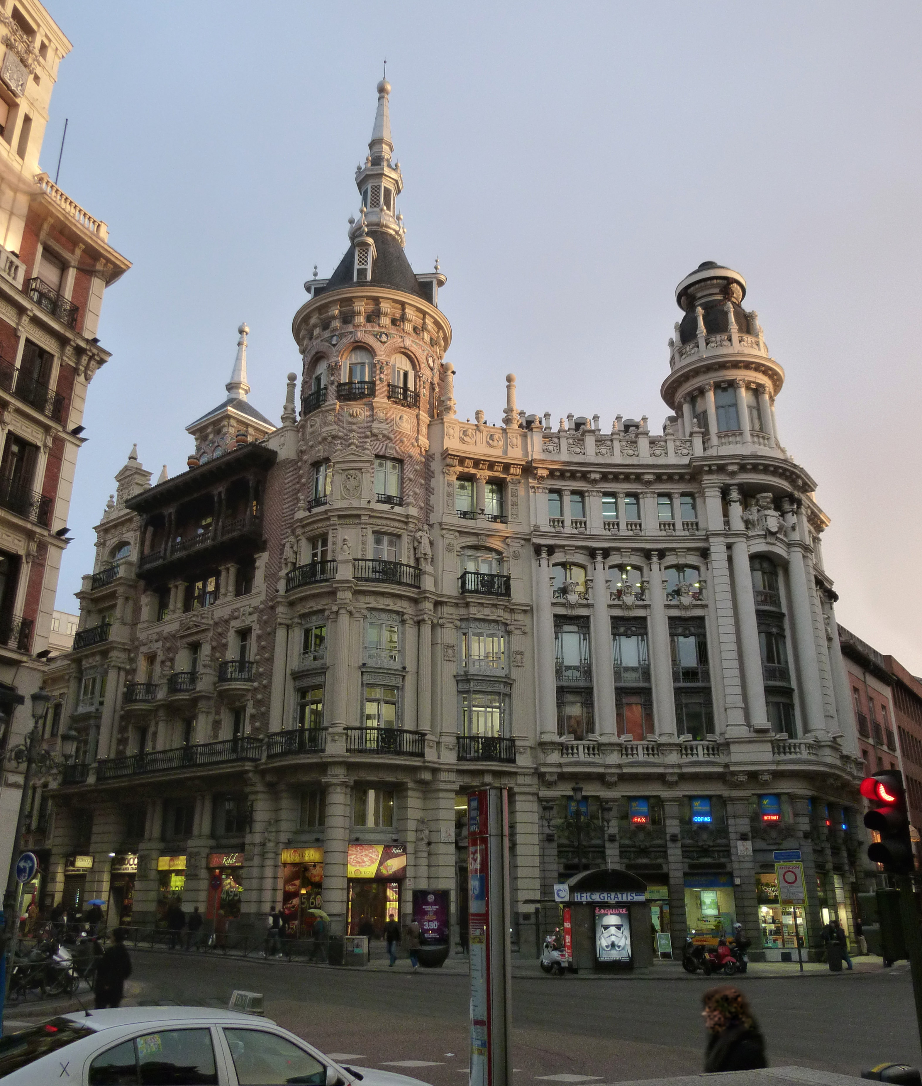 View from Plaza de Canalejas (square) in Madrid (Spain). Left: Casa de Don Tomás de Allende. Right: Edificio Meneses.